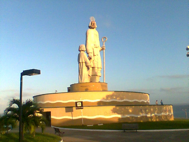 Monument to Saint Joseph of Ribamar